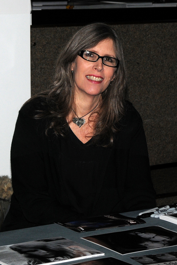 Kyra Schon on the 10th Weekend Of Horrors in Bottrop (NRW)